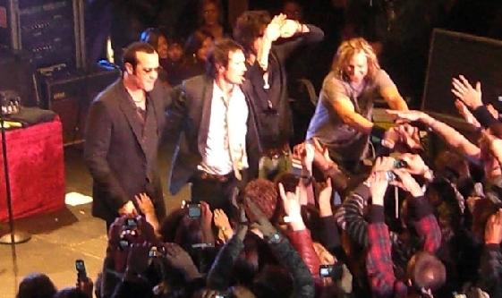 Stone Temple Pilots in Los Angeles